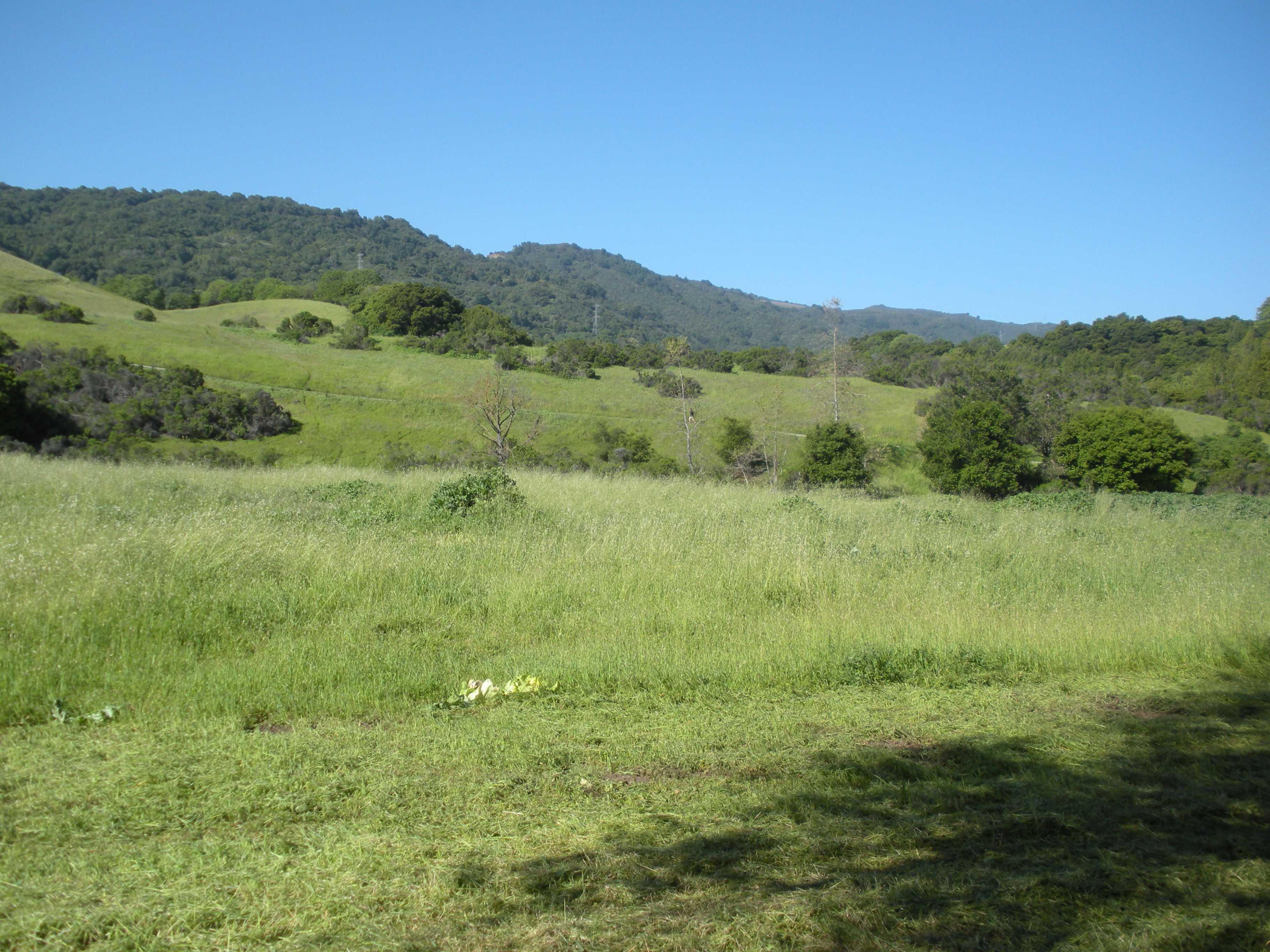 This is a meadow in Rancho San Antonio County Park. Adjacent to Rancho San Antonio Open Space Preserve (Midpeninsula Regional Open Space District). This image is also available at